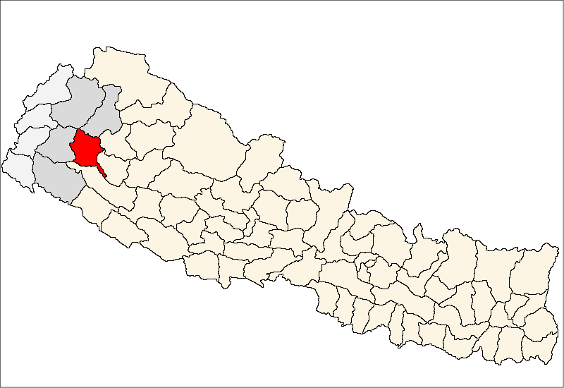 FrenchCarte de localisation dudistrict d'Achham(wp-FR),au Népal (wp-FR).EnglishLocation map ofAchham District(wp-EN),in Nepal (wp-EN).